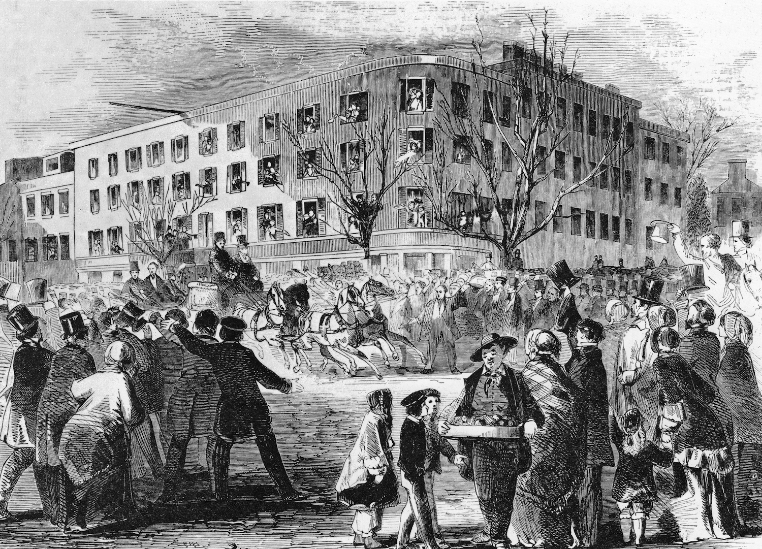 Engraving depicting United States President Franklin Pierce departing the Willard Hotel (14th Street and Pennsylvania Avenue, Washington, D.C.) during his inaugration in March 1853.